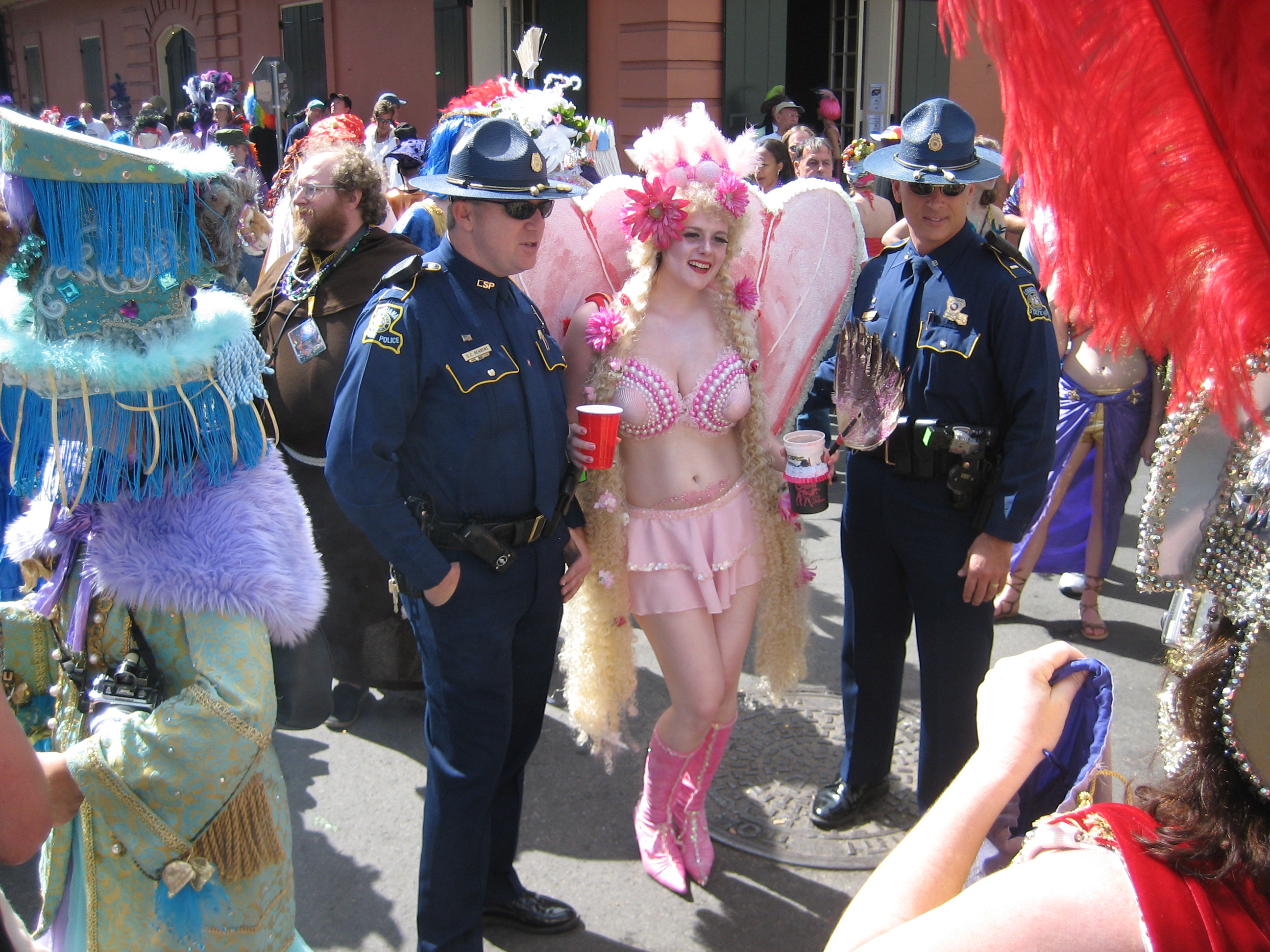 New Orleans, Mardi Gras Day 2006. State troopers and costumed revelers, Jackson Square, French Quarter.